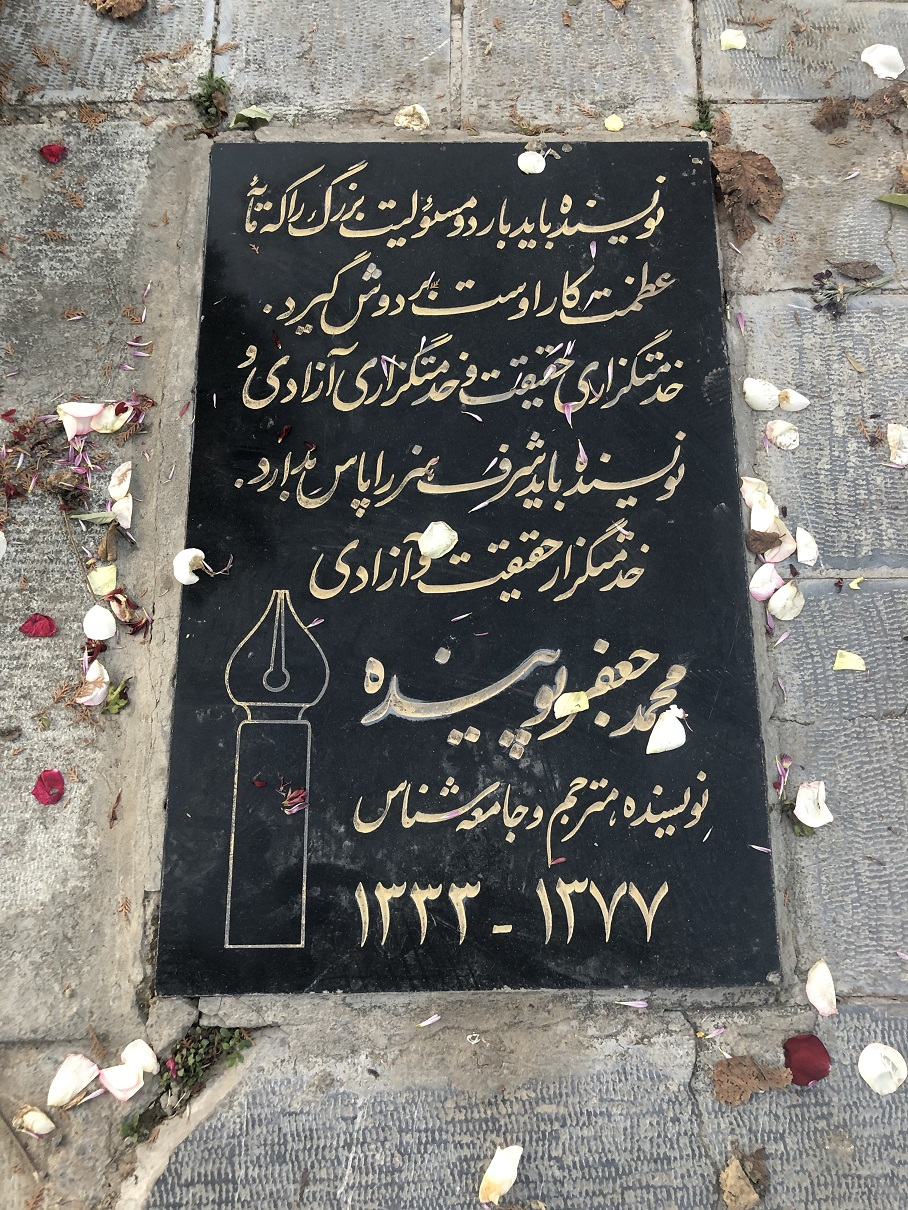 Emamzadeh Taher